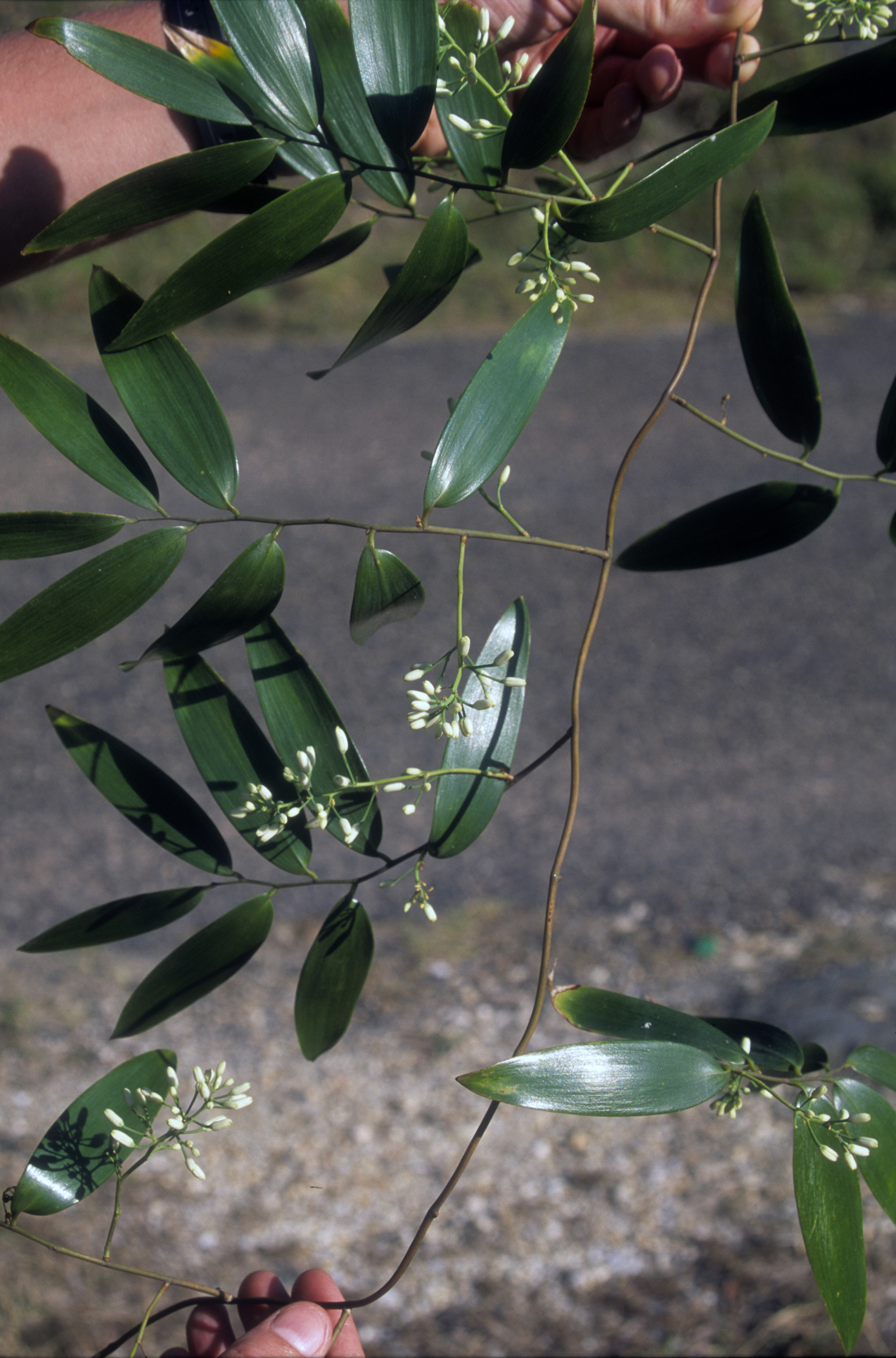 Between Kournac and Col d'Amoss, New Caledonia. Oct. 2002.